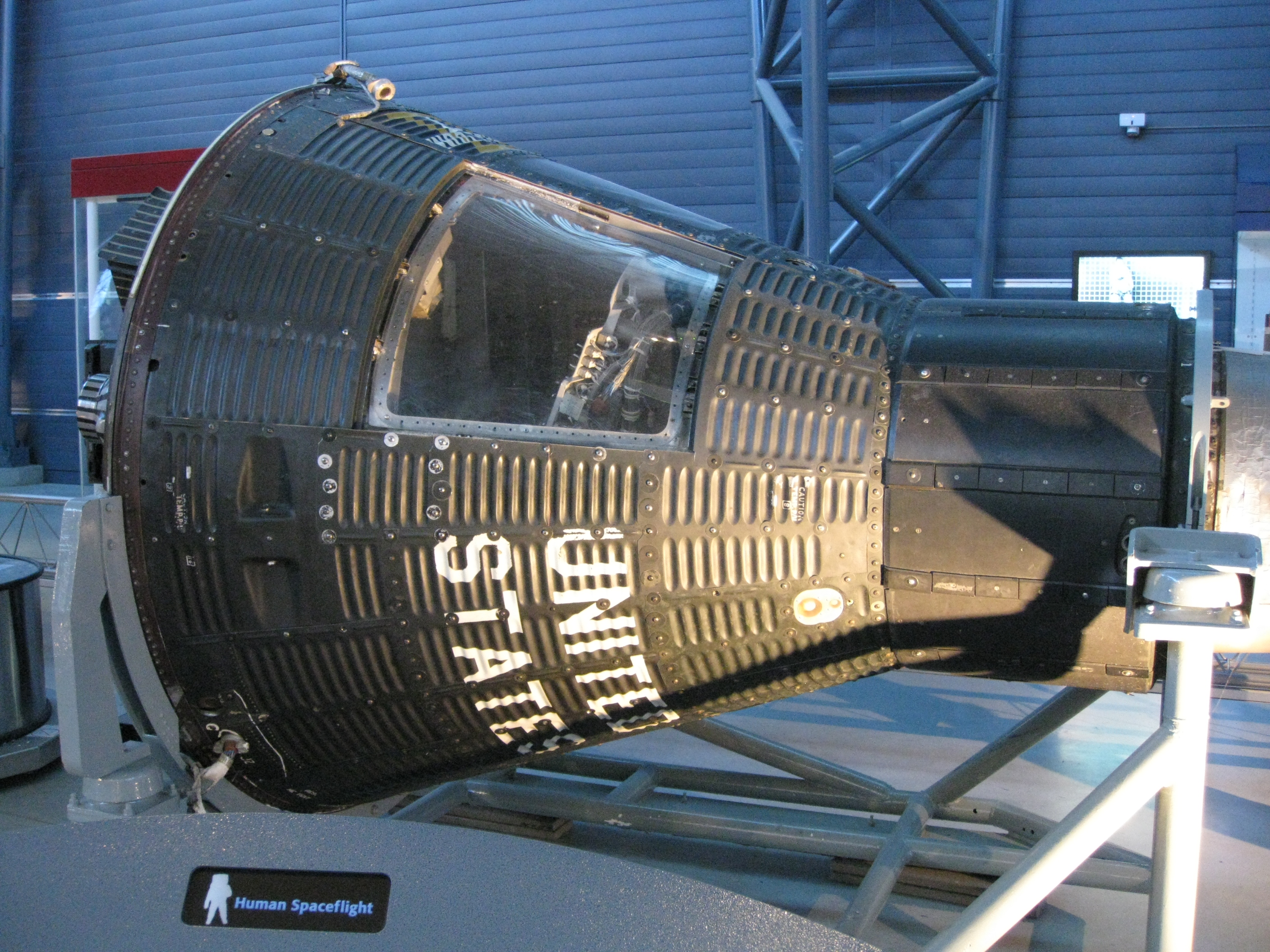 MA-10 Freedom 7-II Steven F. Udvar-Hazy Center in Chantilly, Virginia